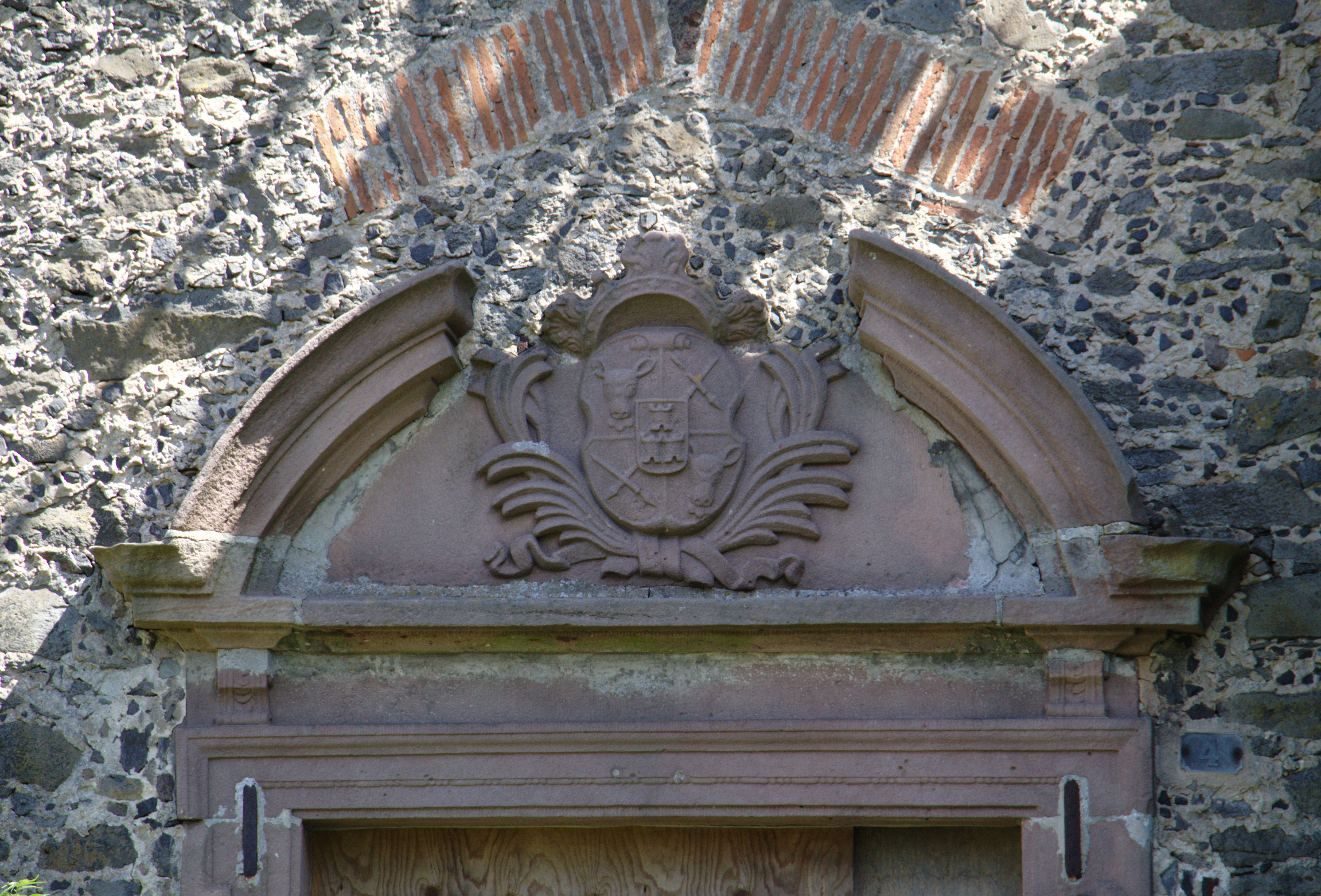 Castle (entrance) in Freiensteinau, Freiensteinau, Hessen, Germany